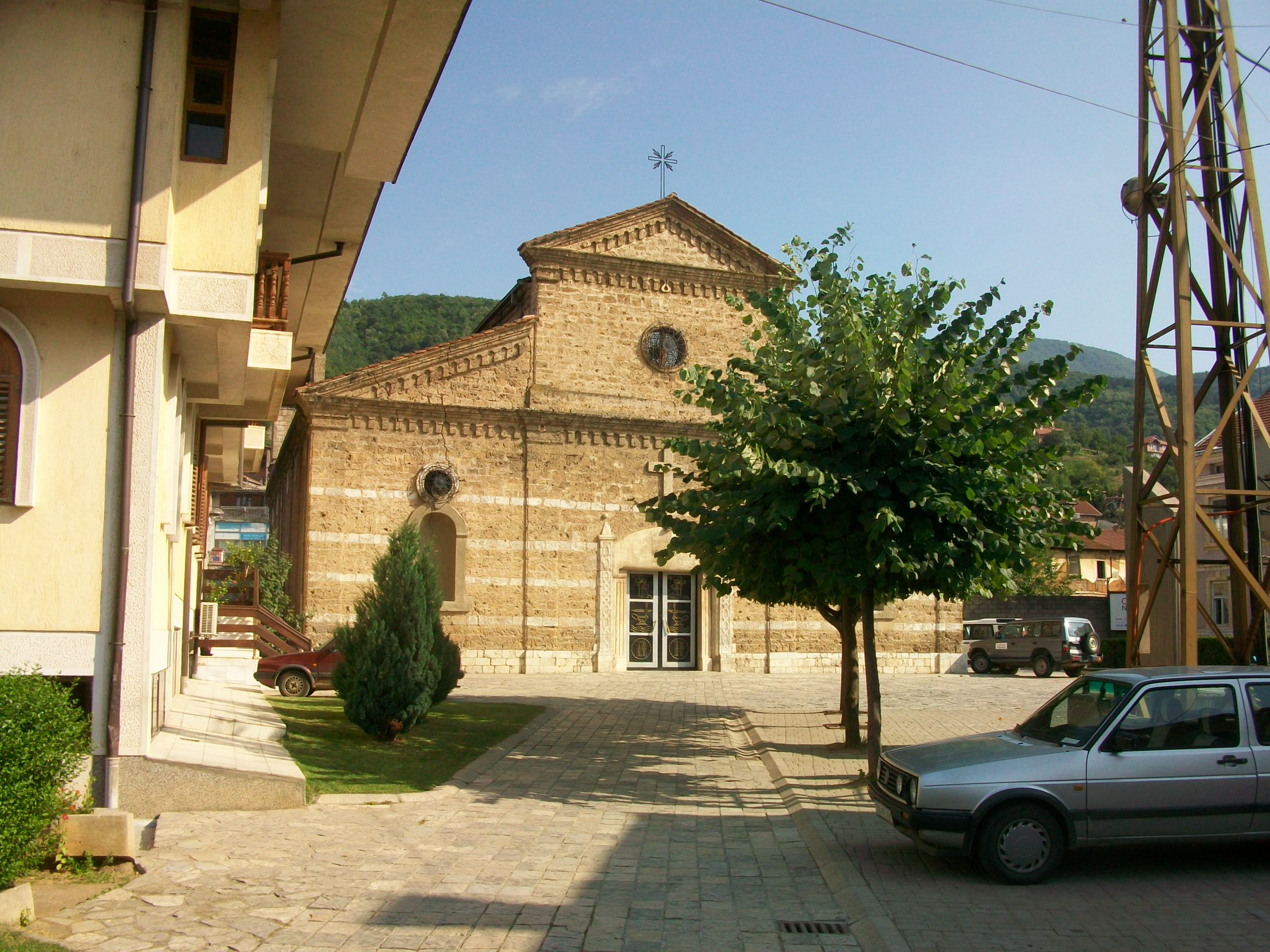 Pictures from Prizren Kosovo